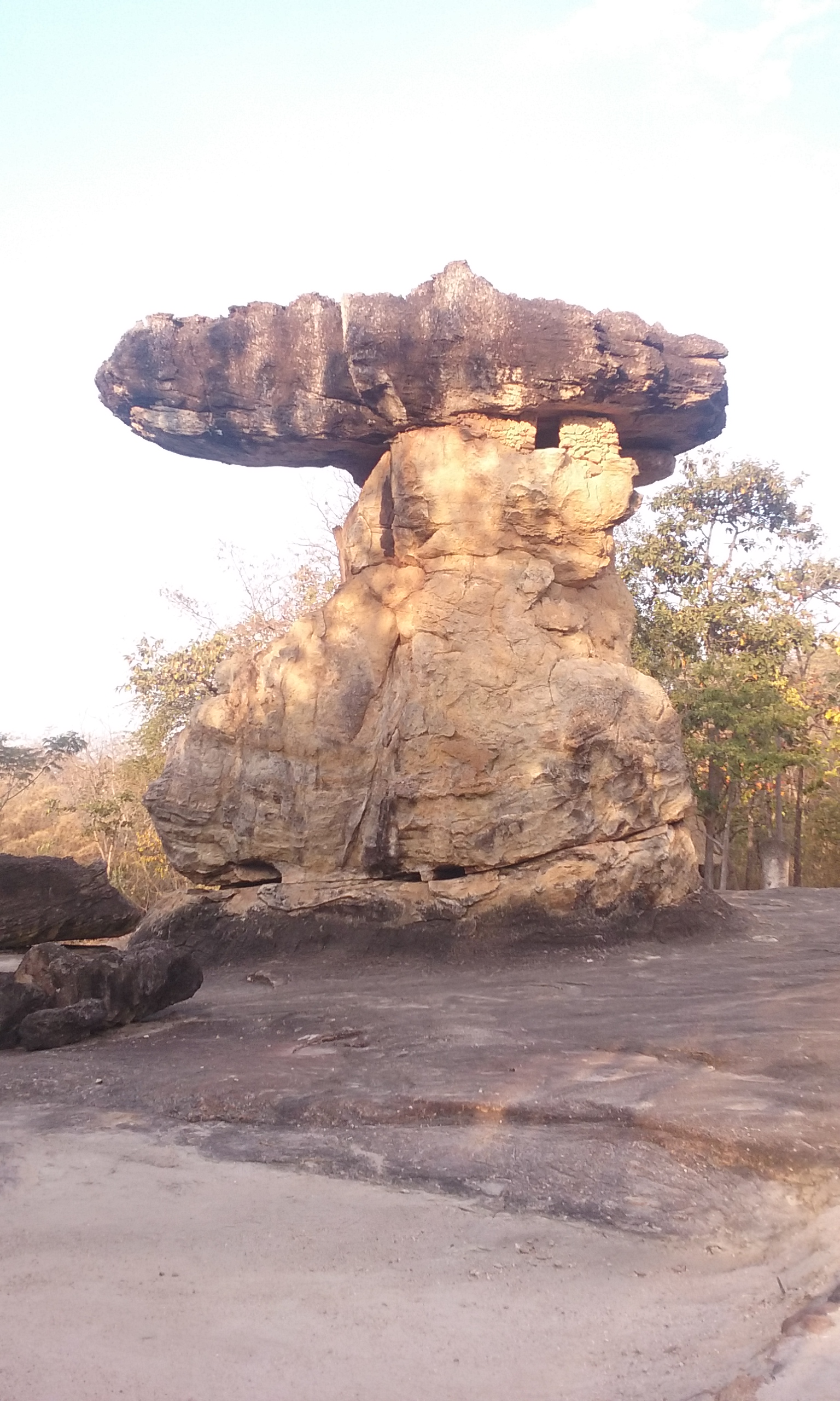 This is a photo at Ban Chaing a prehistory tourist attraction known by many tourist